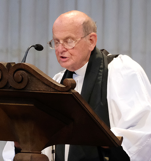 Henry Stapleton, former Dean of Carlisle, and George Stack, Archbishop of Cardiff